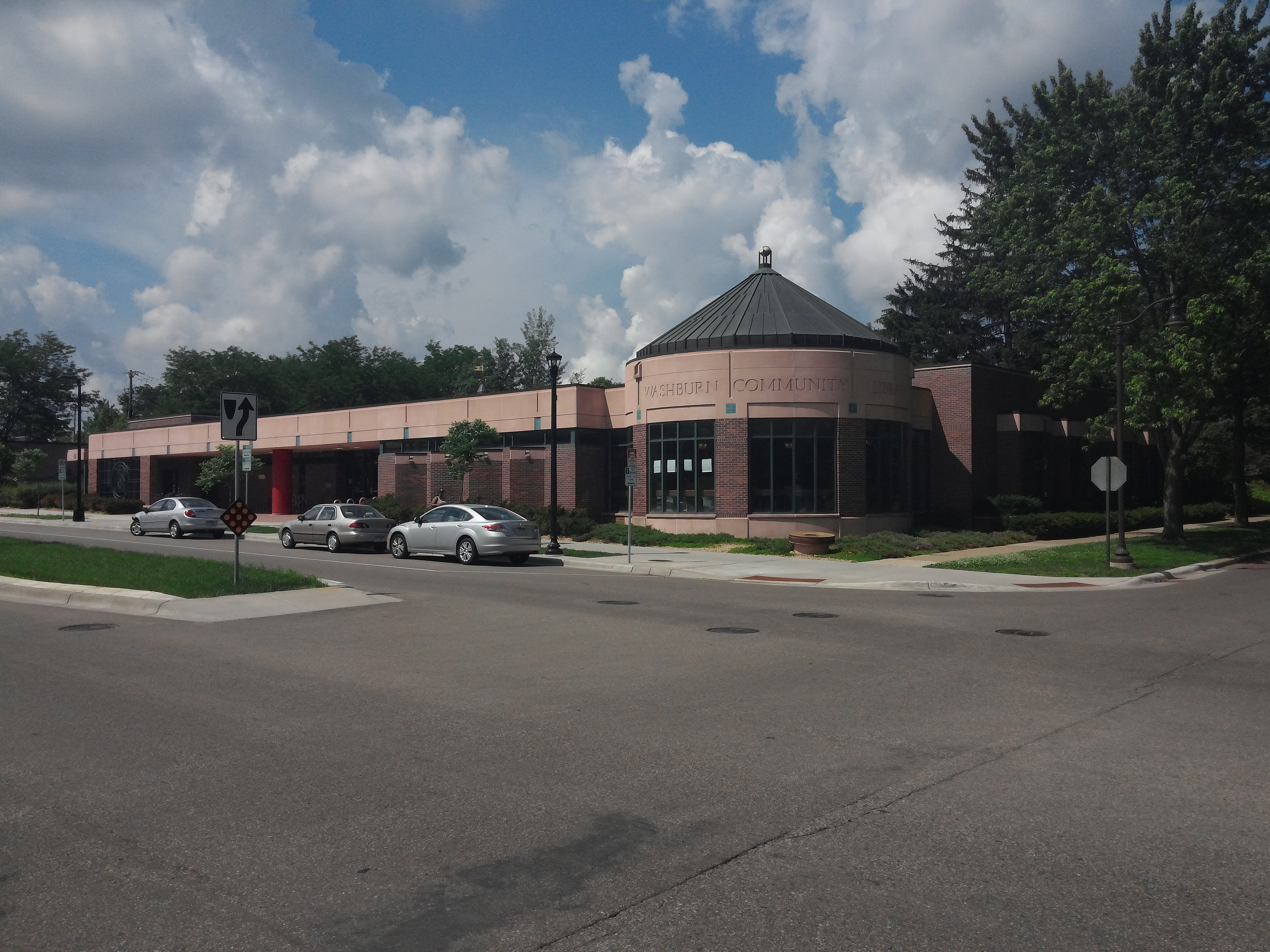 Washburn Community Library in Minneapolis, Minnesota.